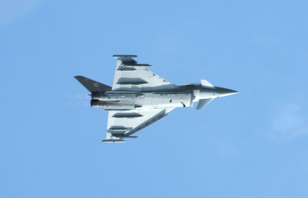 Eurofighter Typhoon, Farnborough 2006